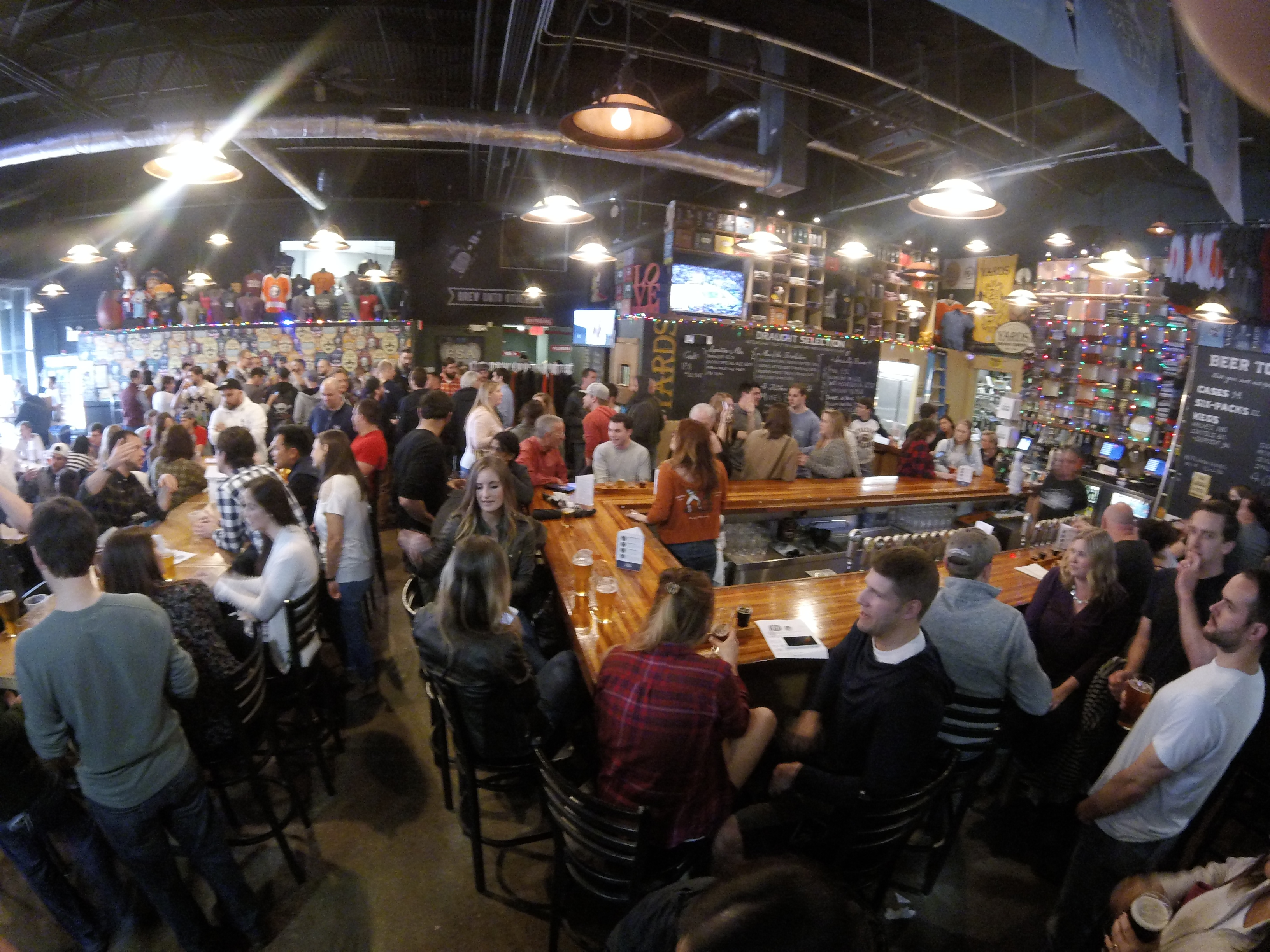 View of the Yards tasting room.